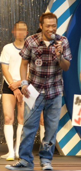 Japanese TV personality Hanawa hosting a summer event near the Nippon TV studios in Shiodome, Tokyo